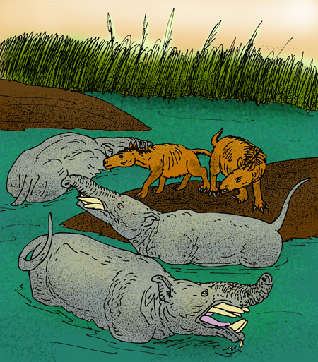 The Early Oligocene South American ungulates Rhynchippus equinus (top), and Pyrotherium romeroi (bottom) (C) Stanton F. Fink